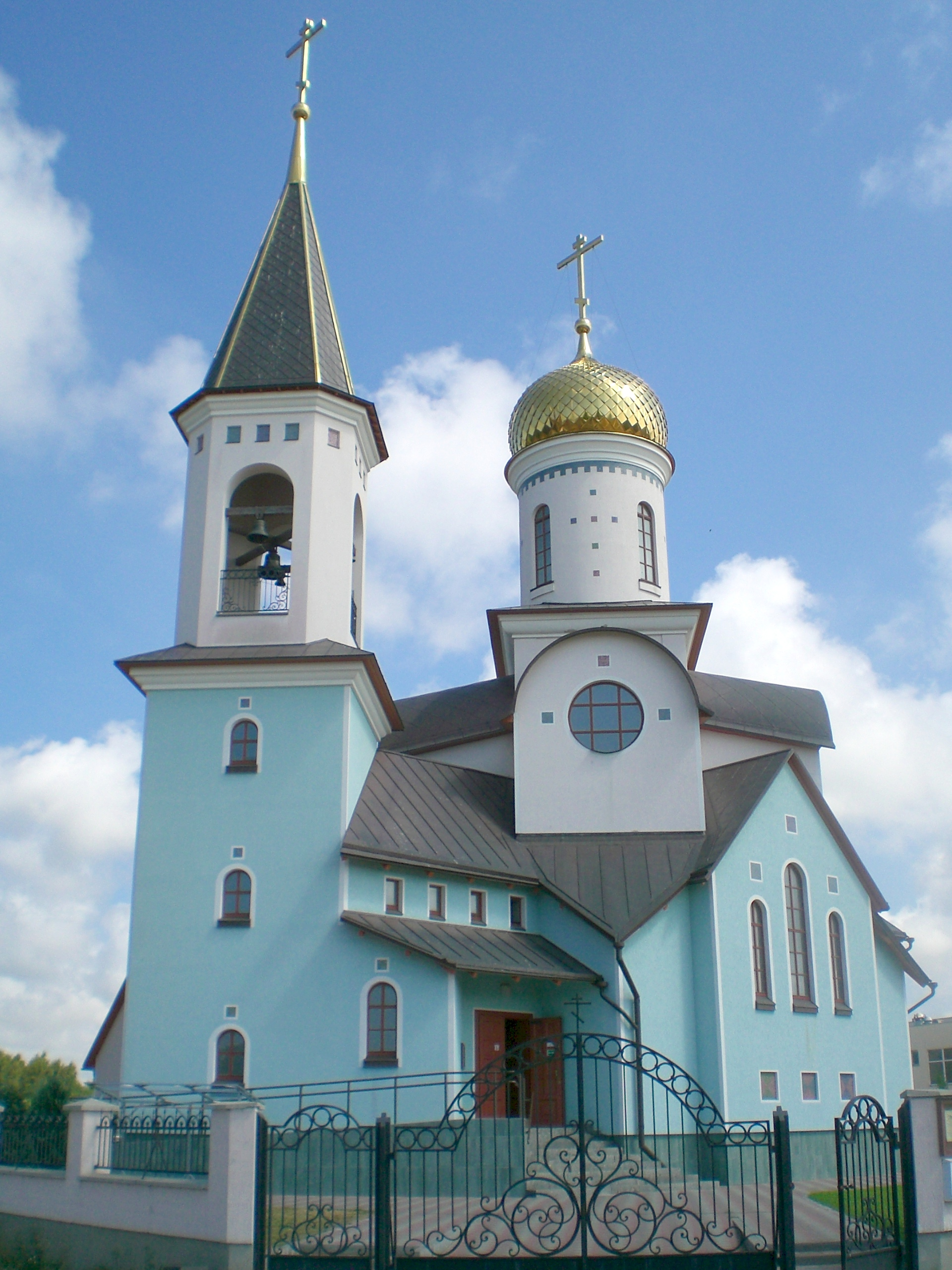 The russian orthodox chapel in the Baltic Sea resort Palanga (Lithuania)